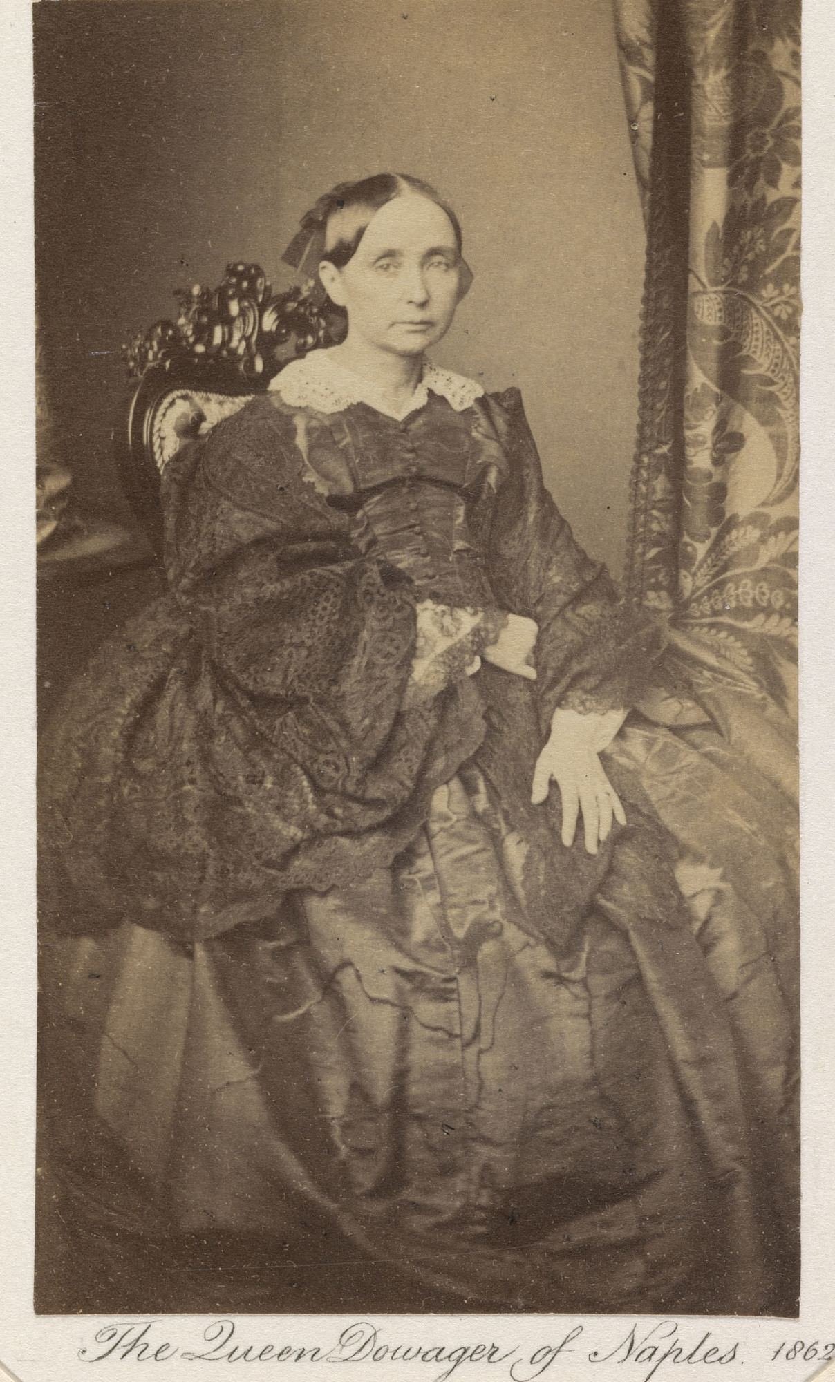 Maria Theresa, Queen Dowager of the Two Sicilies